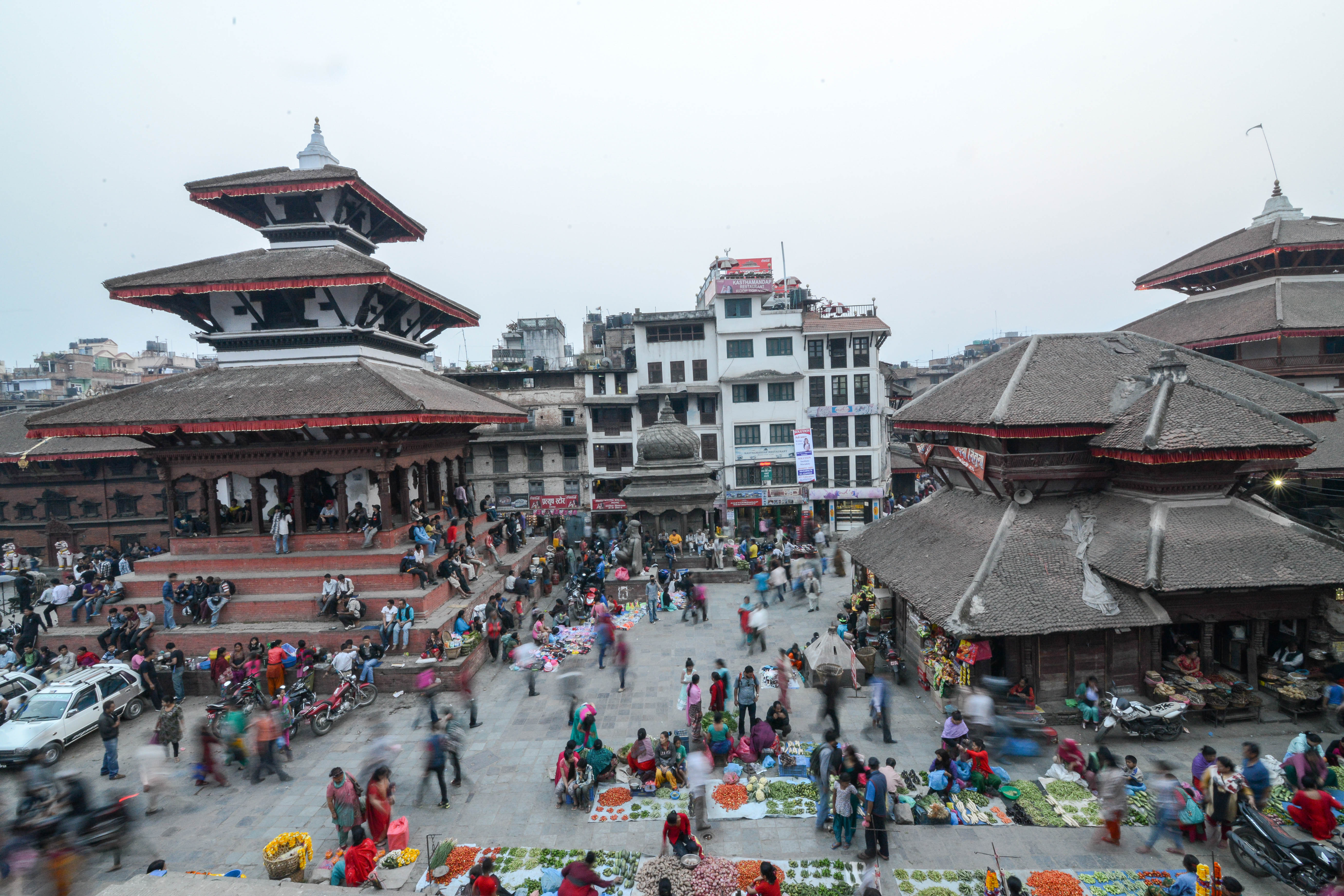 Trailokya Mohan Narayan Temple at Kathmandu Durbar Square, Nepal